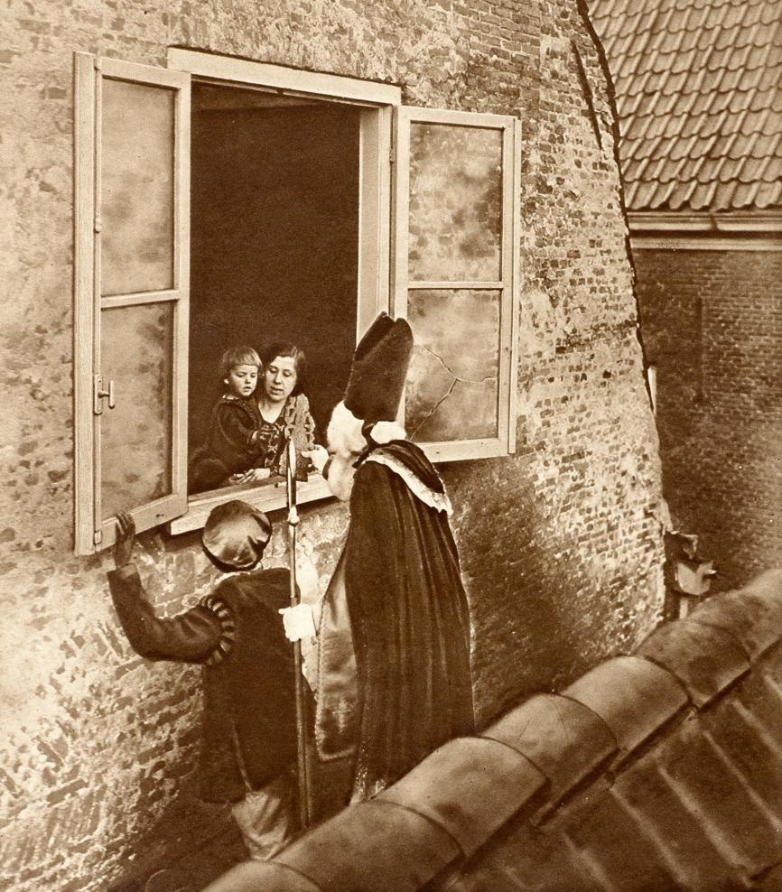 Nationaal Archief/Spaarnestad Photo